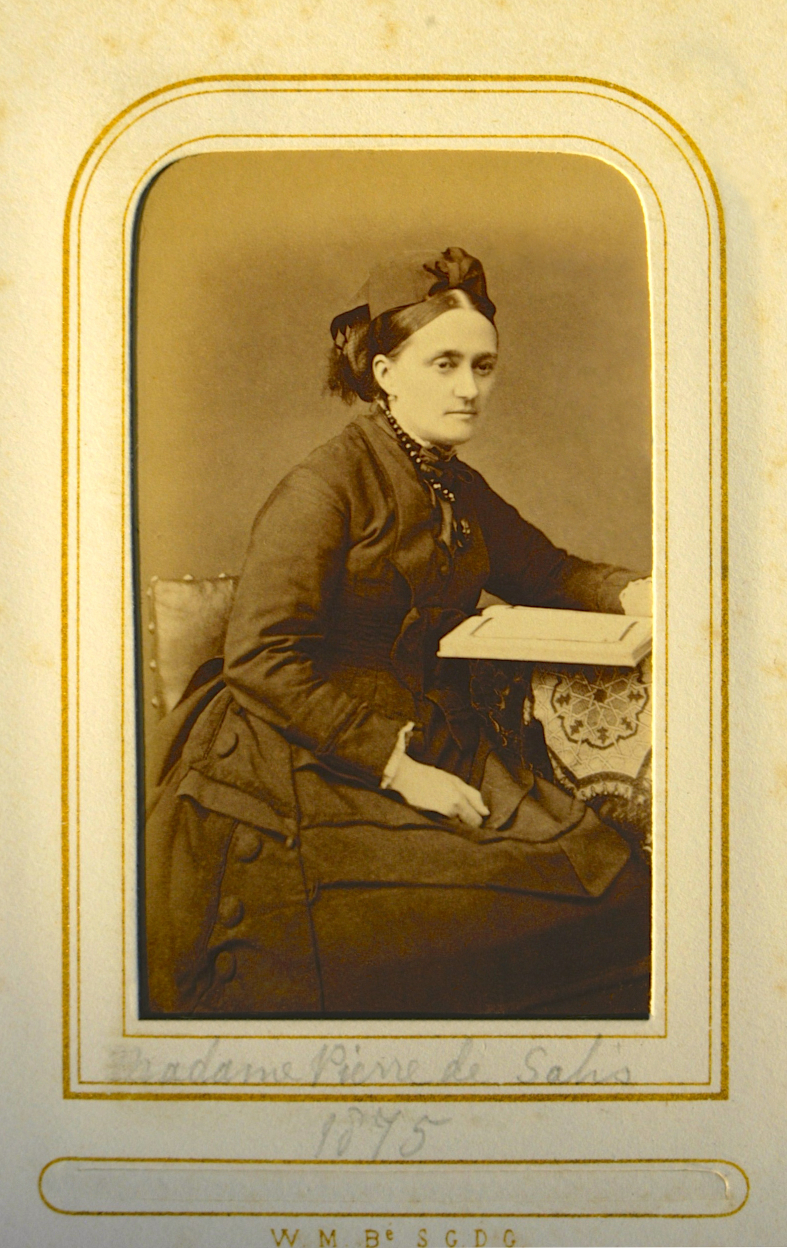 Studio photograph of Mrs Agnes de Salis, wife of Pierre de Salis, daughter of Charles La Trobe, first Lieutenant-Governor of Victoria, Australia